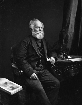 Sir Hugh Allan (1810-1882), of Ravenscrag, Montreal. 1871.